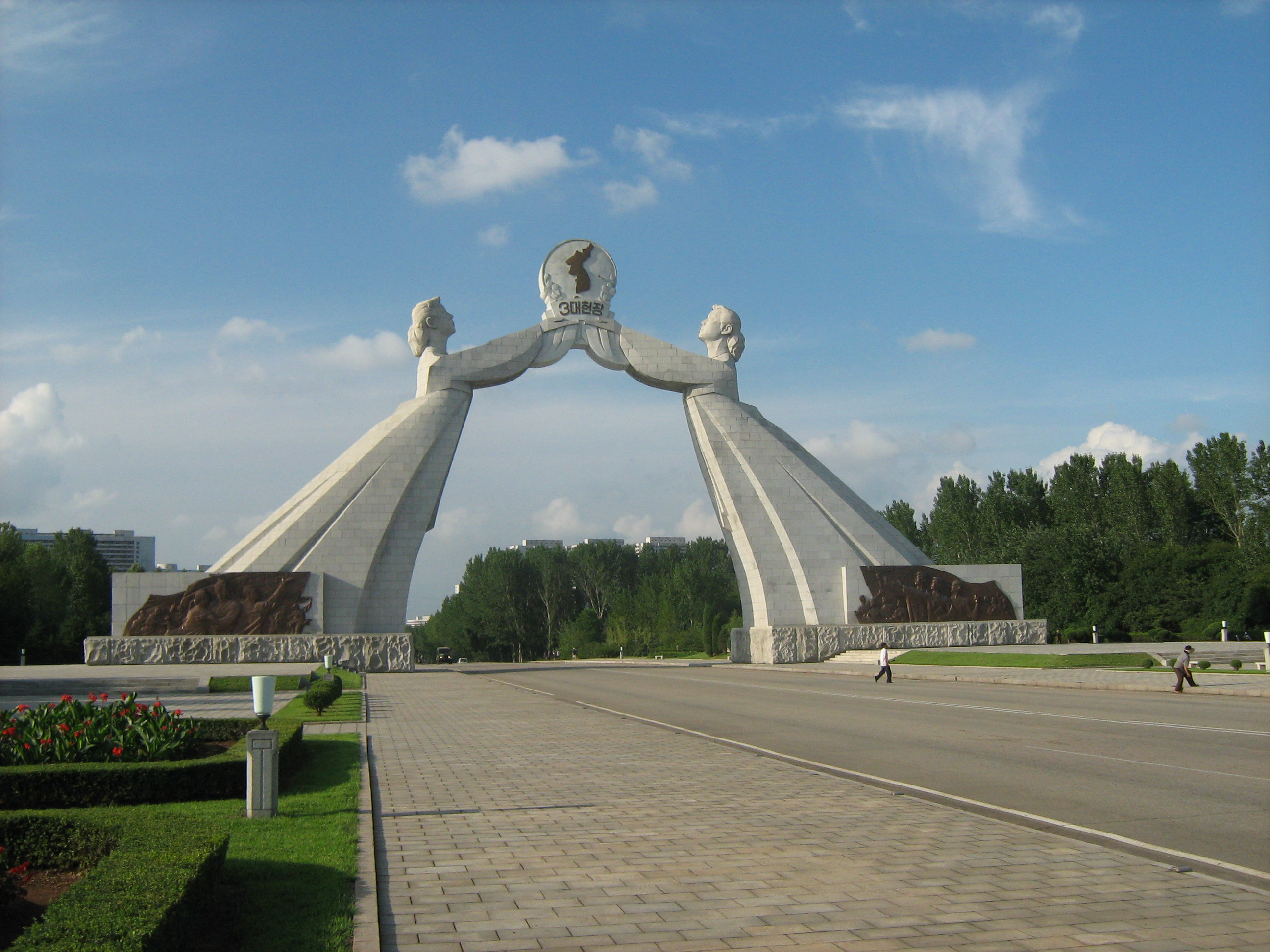 This shows the Reunification Arch on the Reunification Highway, south of Pyongyang, North Korea. It was taken in Summer, 2012.